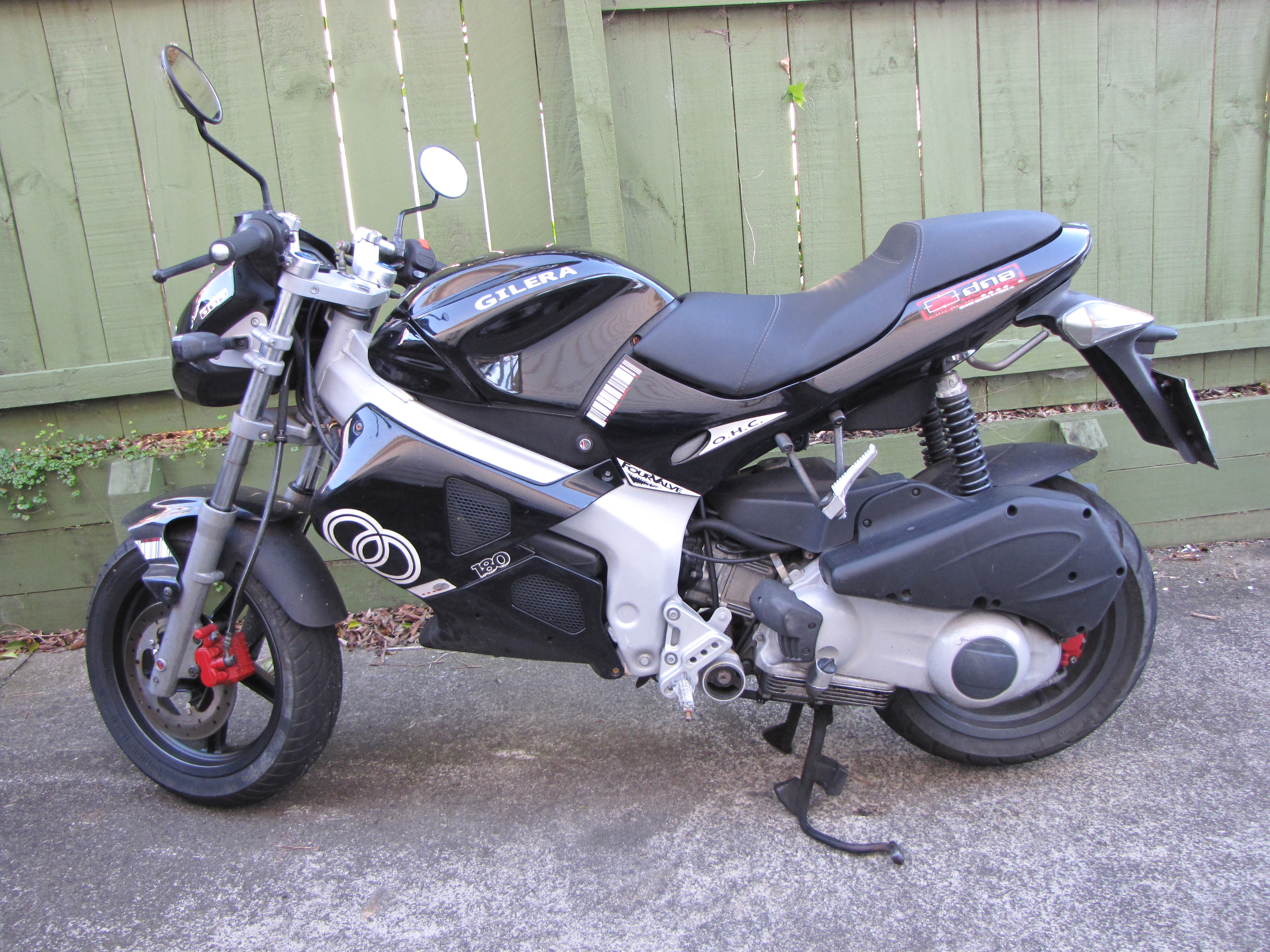 2002 Gilera DNA 180 cc motor scooter